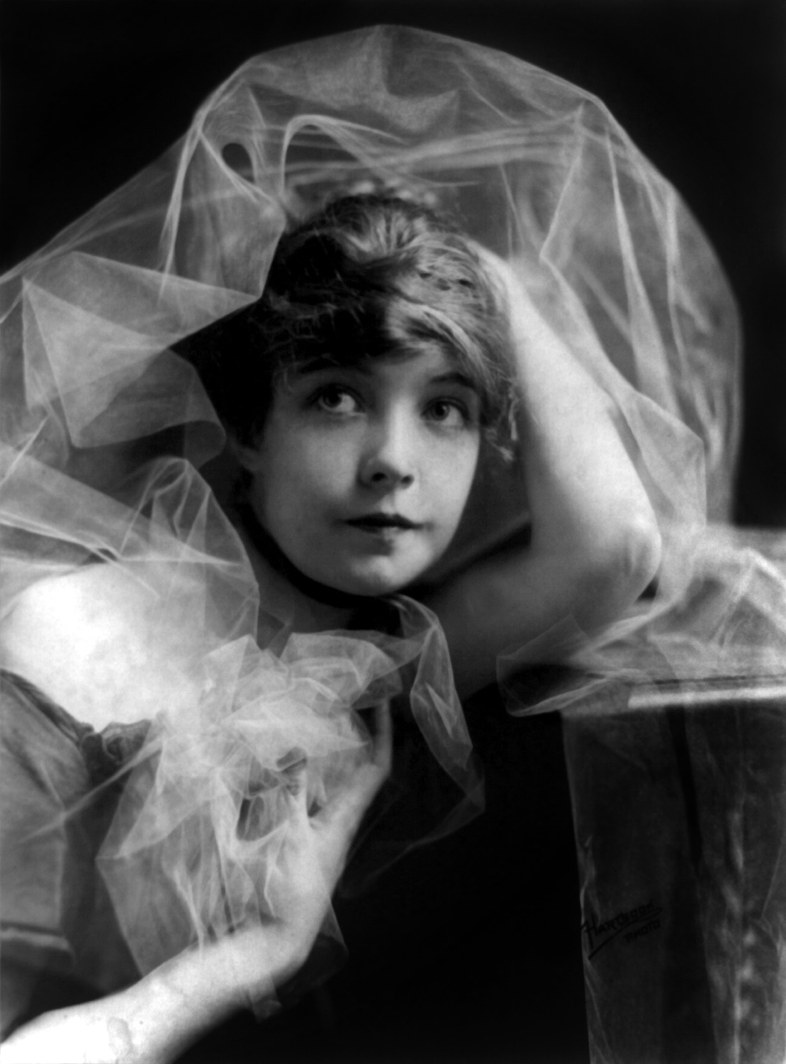 [Lillian Gish, head-and-shoulders portrait] / Hartsook Photo.